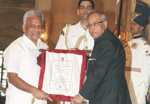 Honourable President of India Sri Pranab Mukherjee presenting the "National Award for the Child Welfare & Cash Prize for the year 2011" to Malladi Krishna Rao at Rashtrapati Bhavan, New Delhi on 14-11-2012